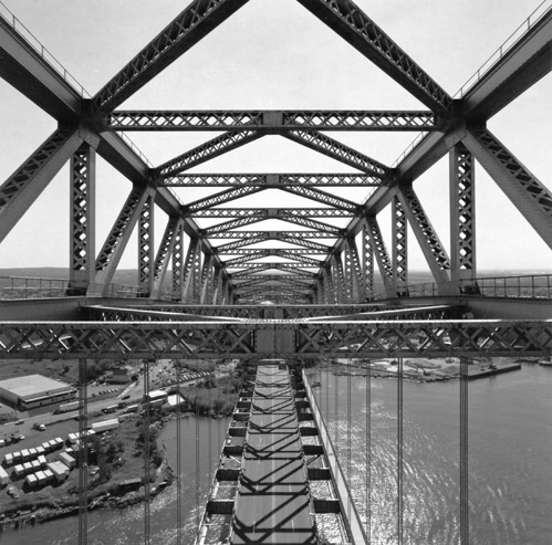 View from the lower chord of the Bayonne Bridge, connecting Bayonne, New Jersey, with Staten Island, New York.